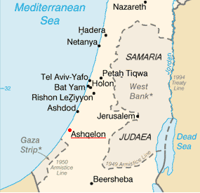 Ashkelon on the map of Israel